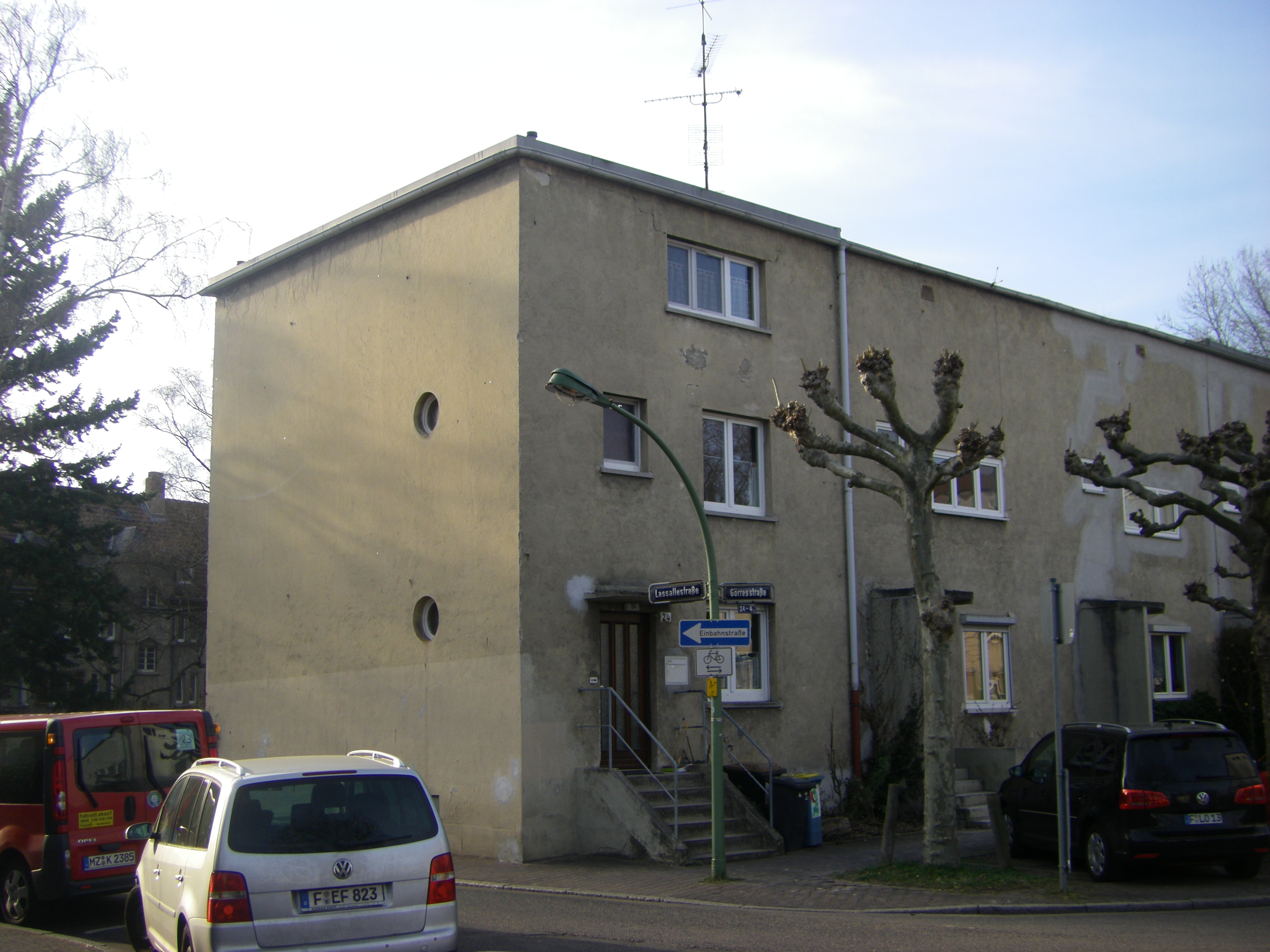 The house no. 24 on the corner to Lassallestreet was original film location of German TV-serial "Tatort: Der Tote im Nachtzug"